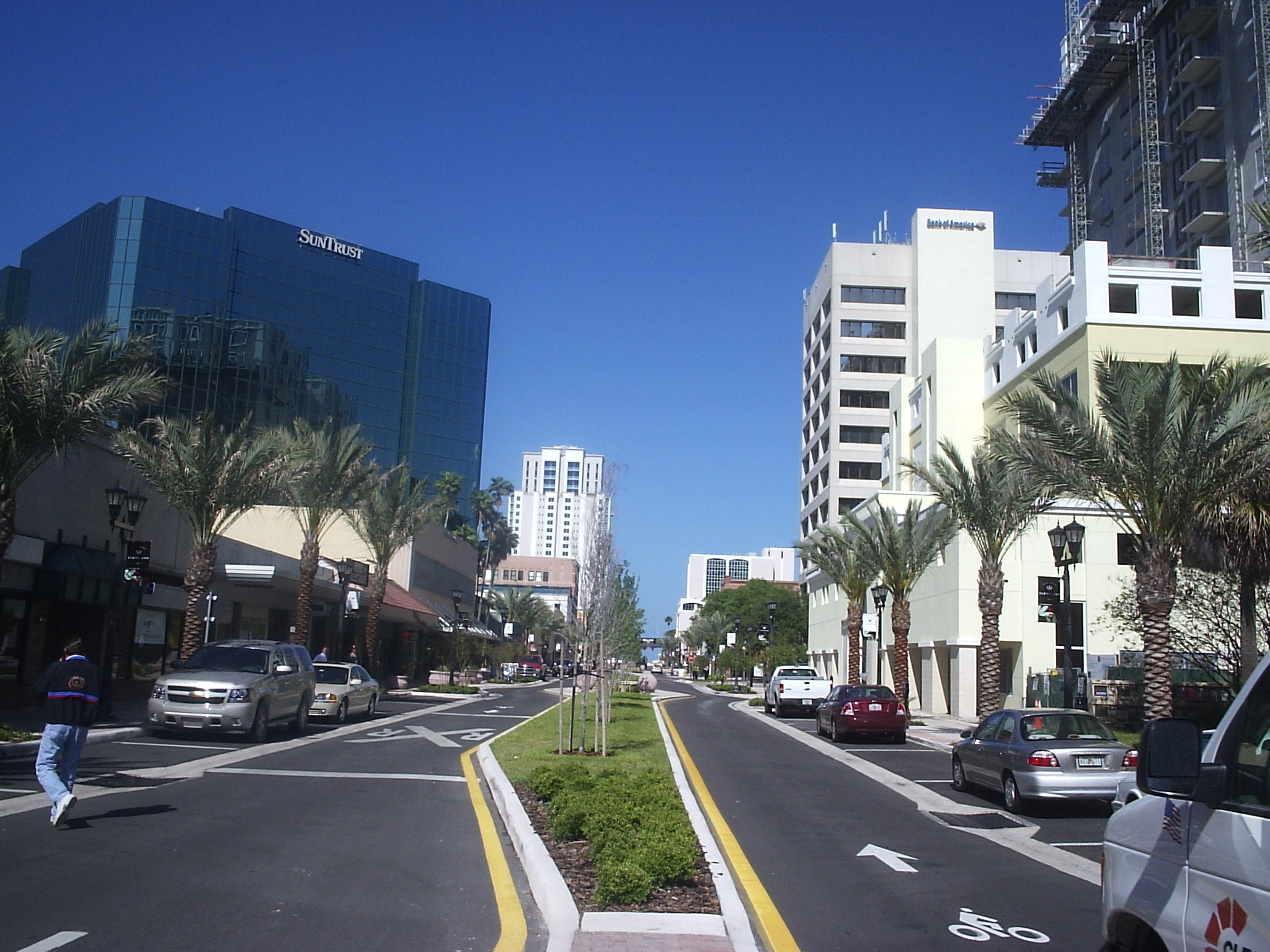 Cleveland Street in Clearwater, Florida looking west from west of Myrle Avenue. Bank of America office building overshadowed by building under construction behind it. SunTrust Bank ofice building prominent on left. Trees alnog sidewalks, medians and art added as part of streetscaping.